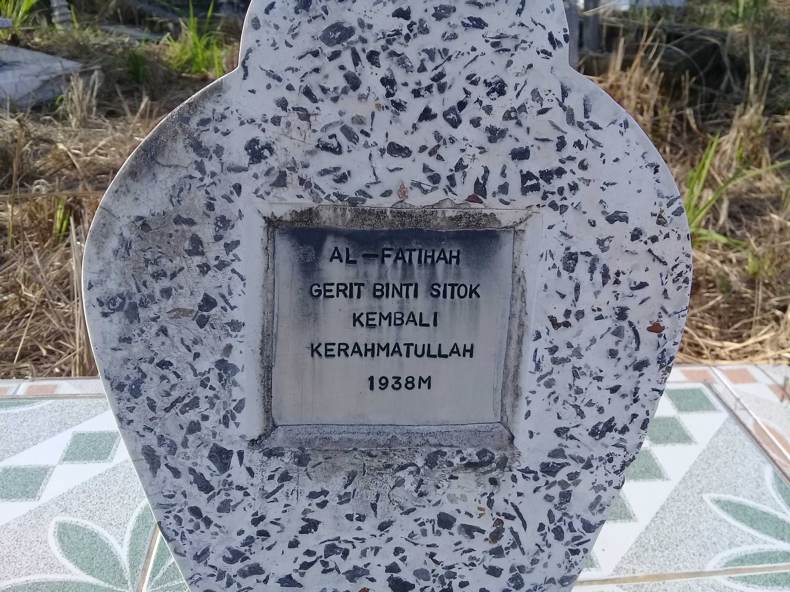 Batu nisan ini bertarikh seawal tahun 1938